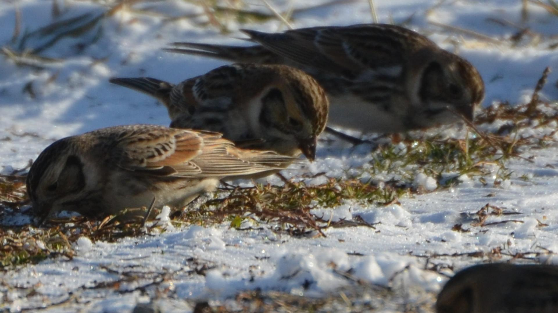 Riverlands Migratory Bird Sanctuary in Alton MO on 12/29/12